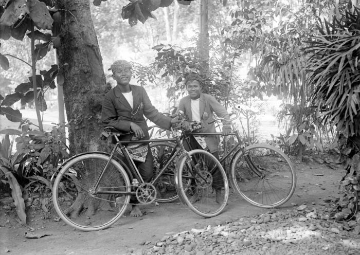 Post-deliverer boys on bicycle of the Postoffice in Weltevreden, Batavia